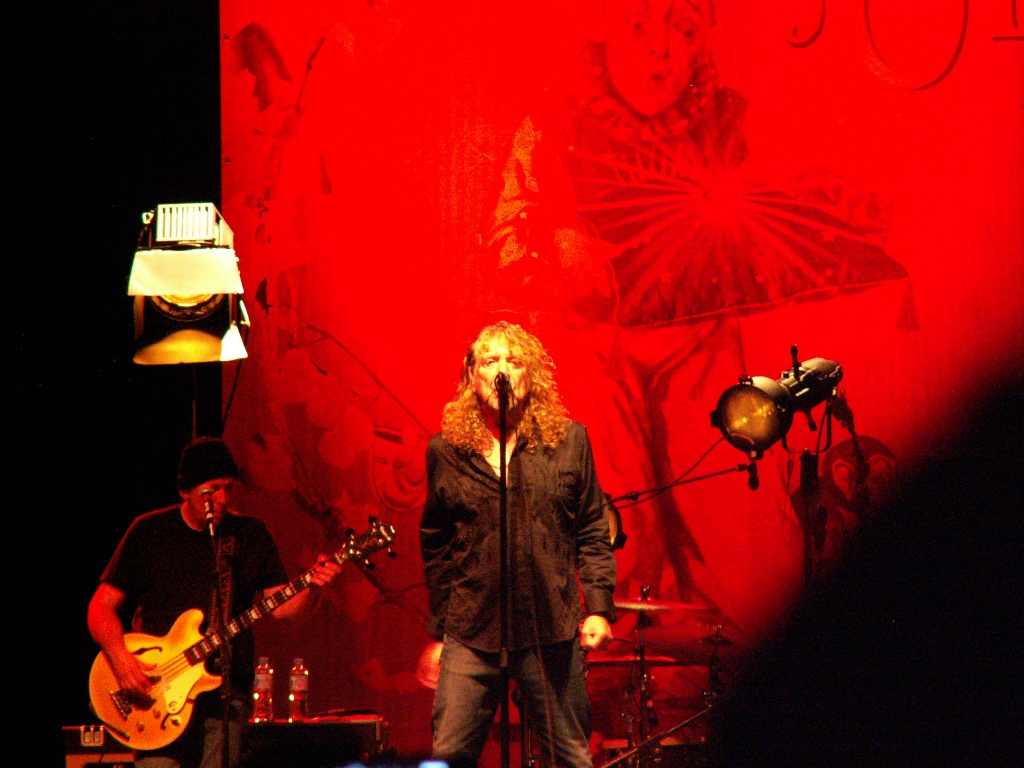 Robert Plant photo taken in Warsaw